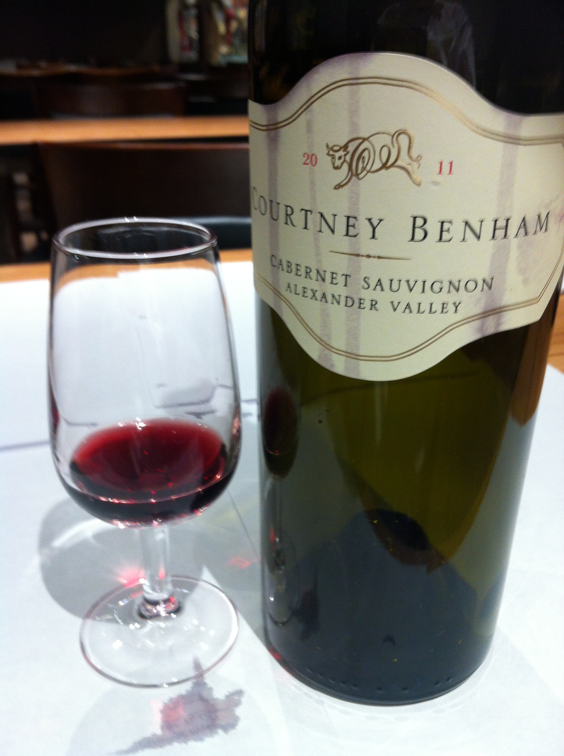 California Cabernet Sauvignon from the Alexander Valley AVA of Sonoma